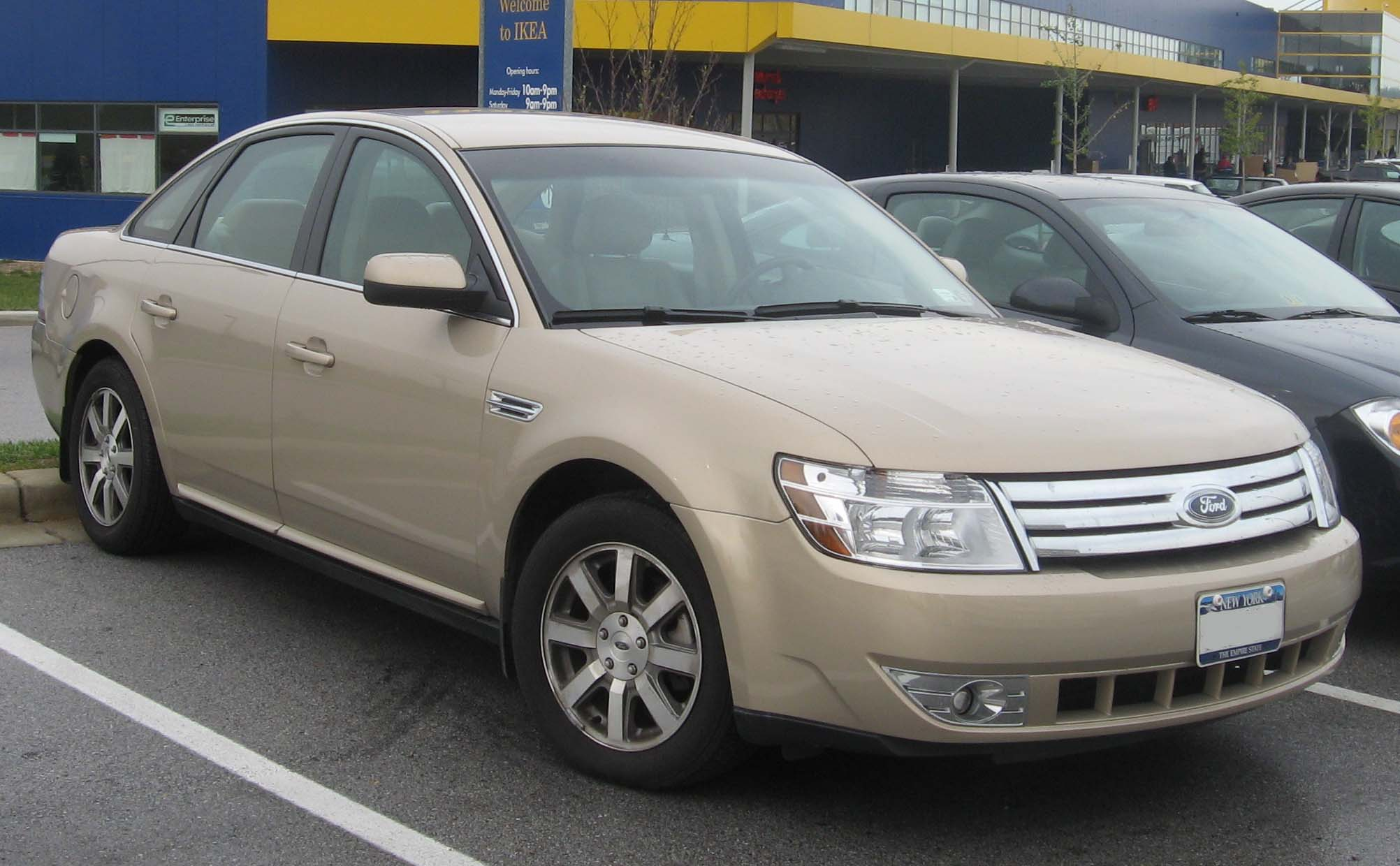 2008 Ford Taurus photographed in College Park, Maryland, USA.